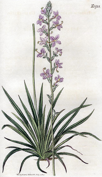 A botanical print of Stylidium graminifolium (Grass triggerplant) from Curtis's Botanical Magazine (volume 44, plate 1918).